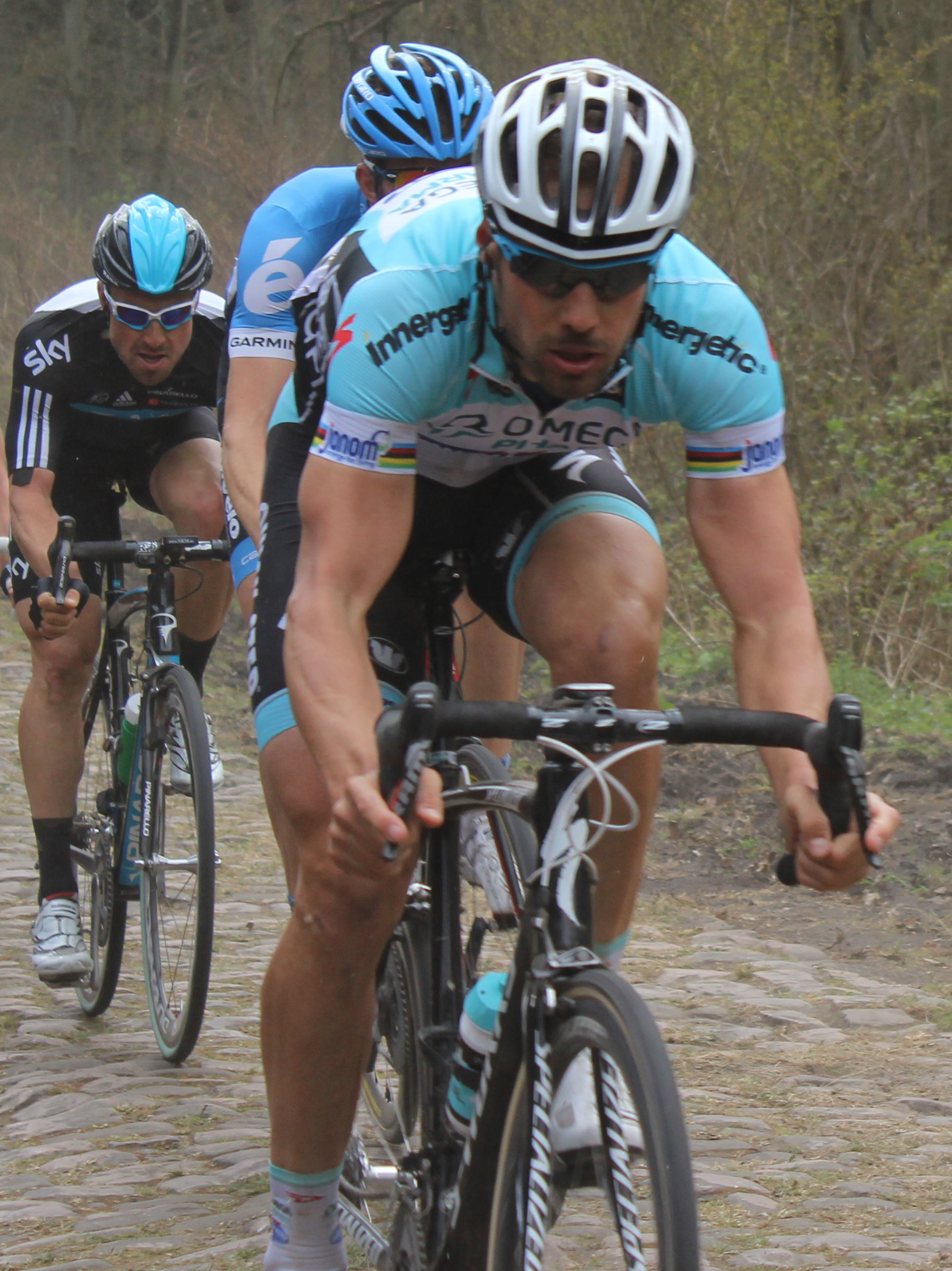 Tom Boonen,Sep Vanmarcke and Bernhard Eisel at the 2012 Paris–Roubaix.